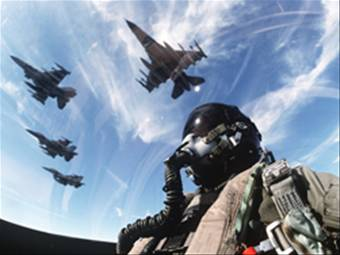 F-16s of Misawa AB, Japan.